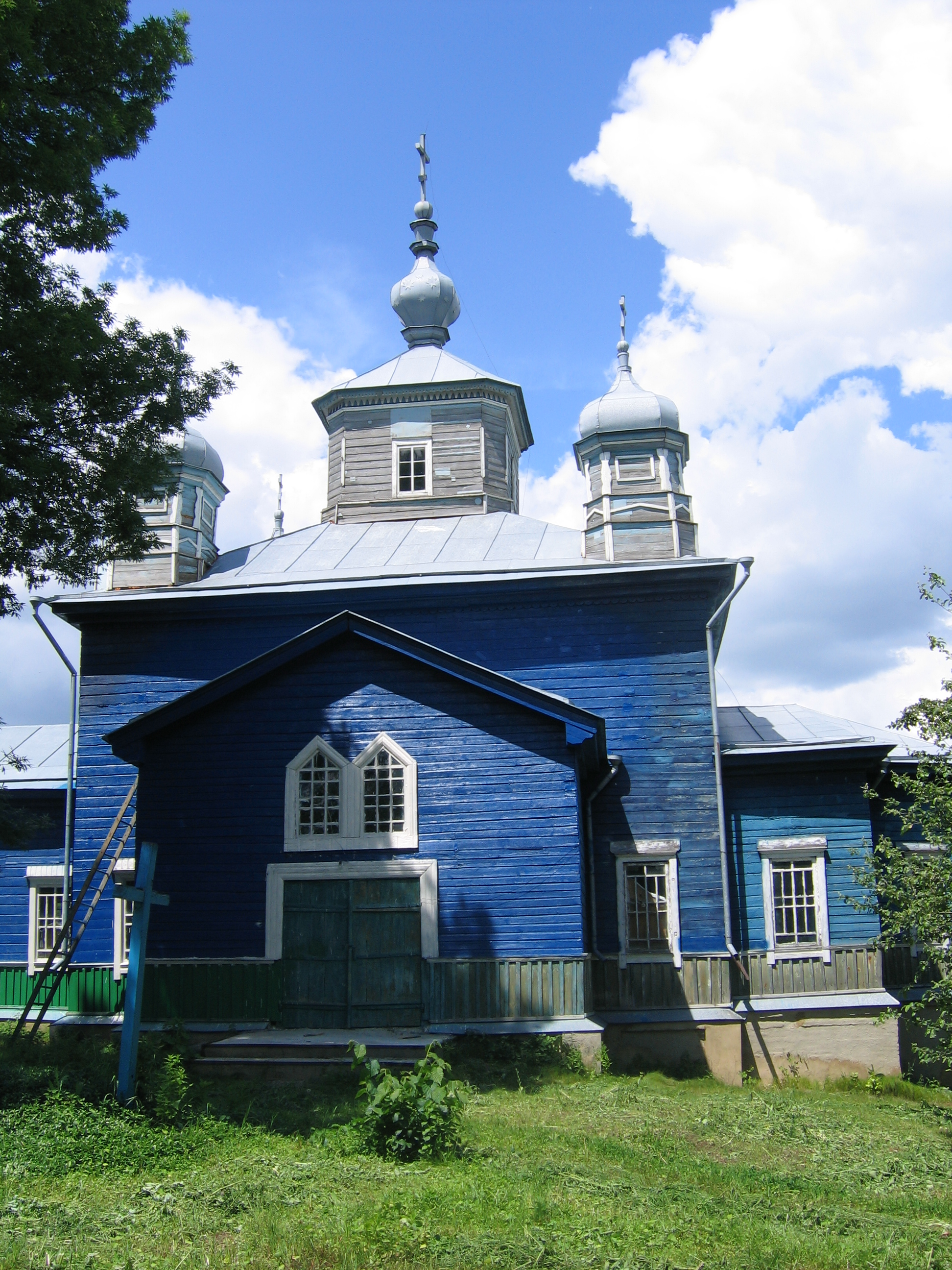 Pokrovskaya church Kam'yane in Sumy oblast approximately in 2006